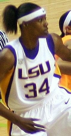 Former LSU women's basketball player Sylvia Fowles in the 2008 NCAA Final Four.